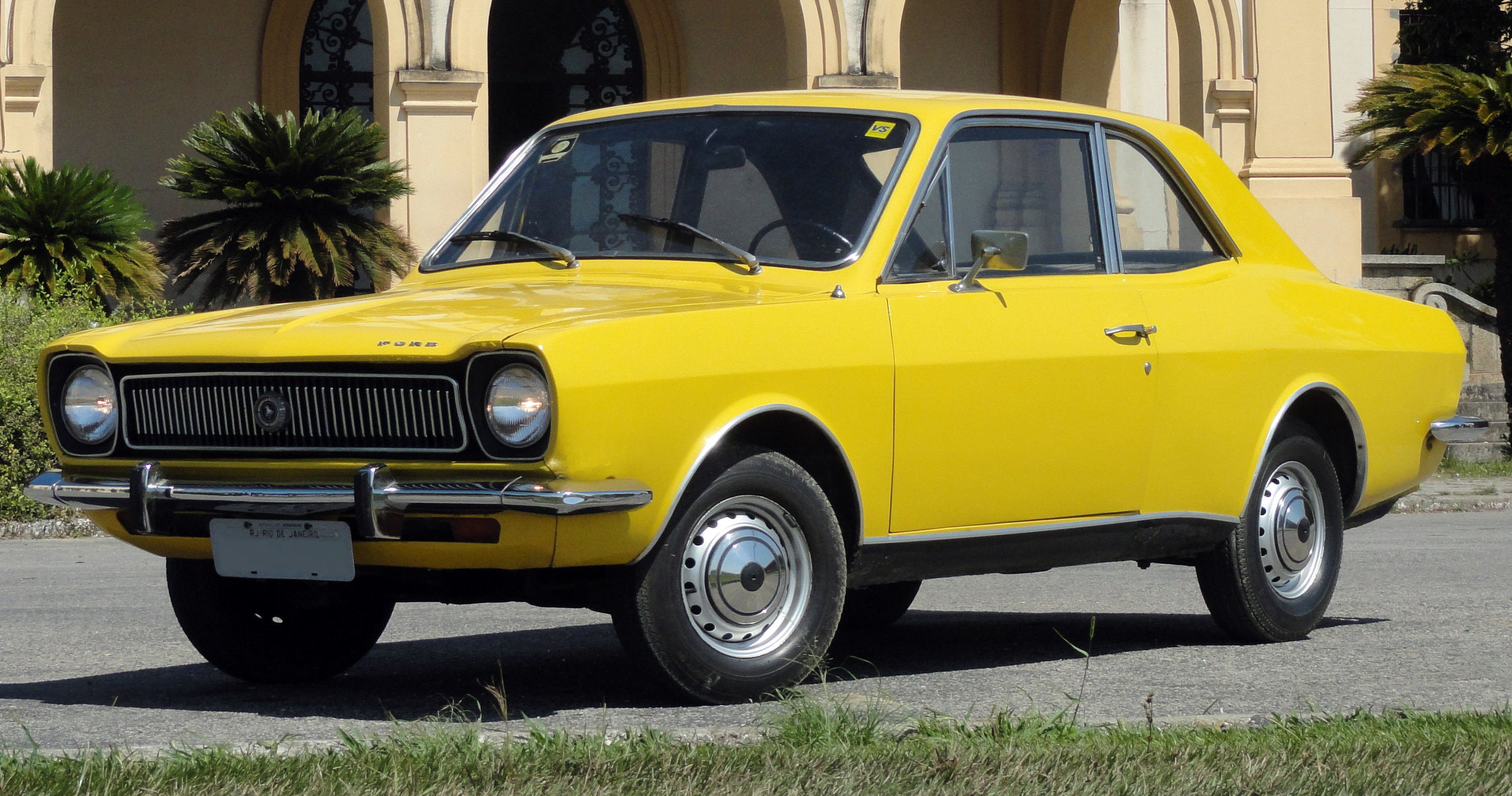 1973 Ford Corcel Luxo - first year of front facelift, a bit more squared and muscular in appearance